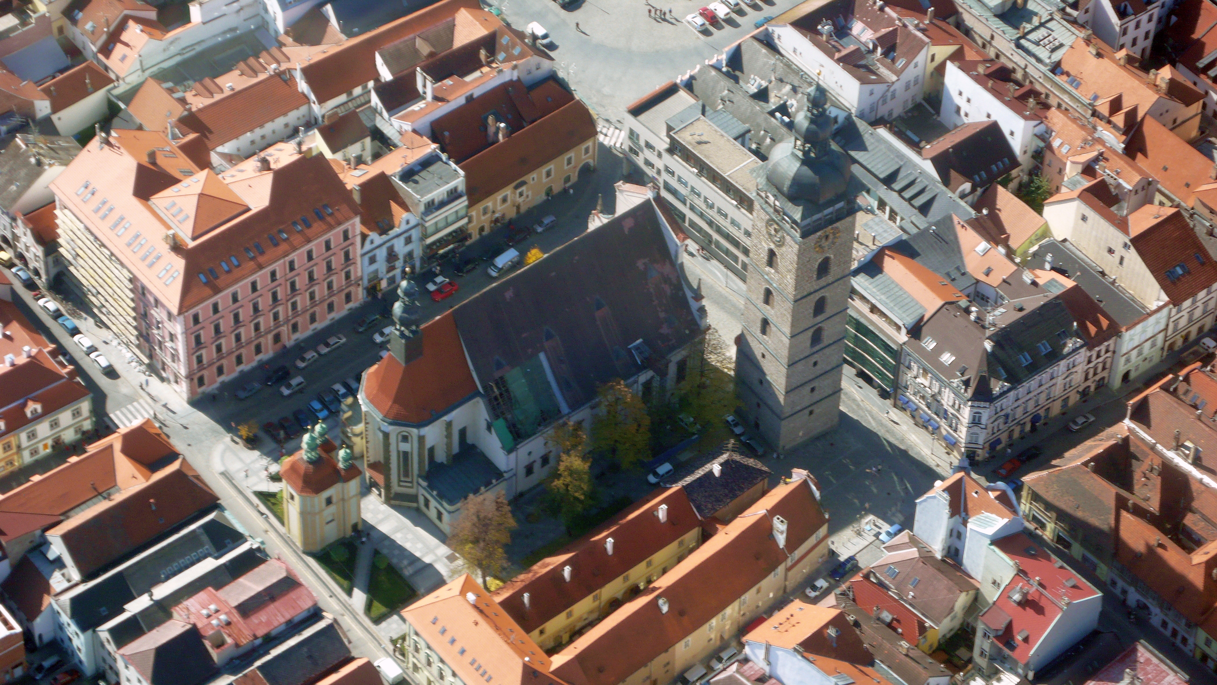 Black Tower, St Nicholas Cathedral and Baroque Chapel of the Mortal Anxiety of the Lord in České Budějovice